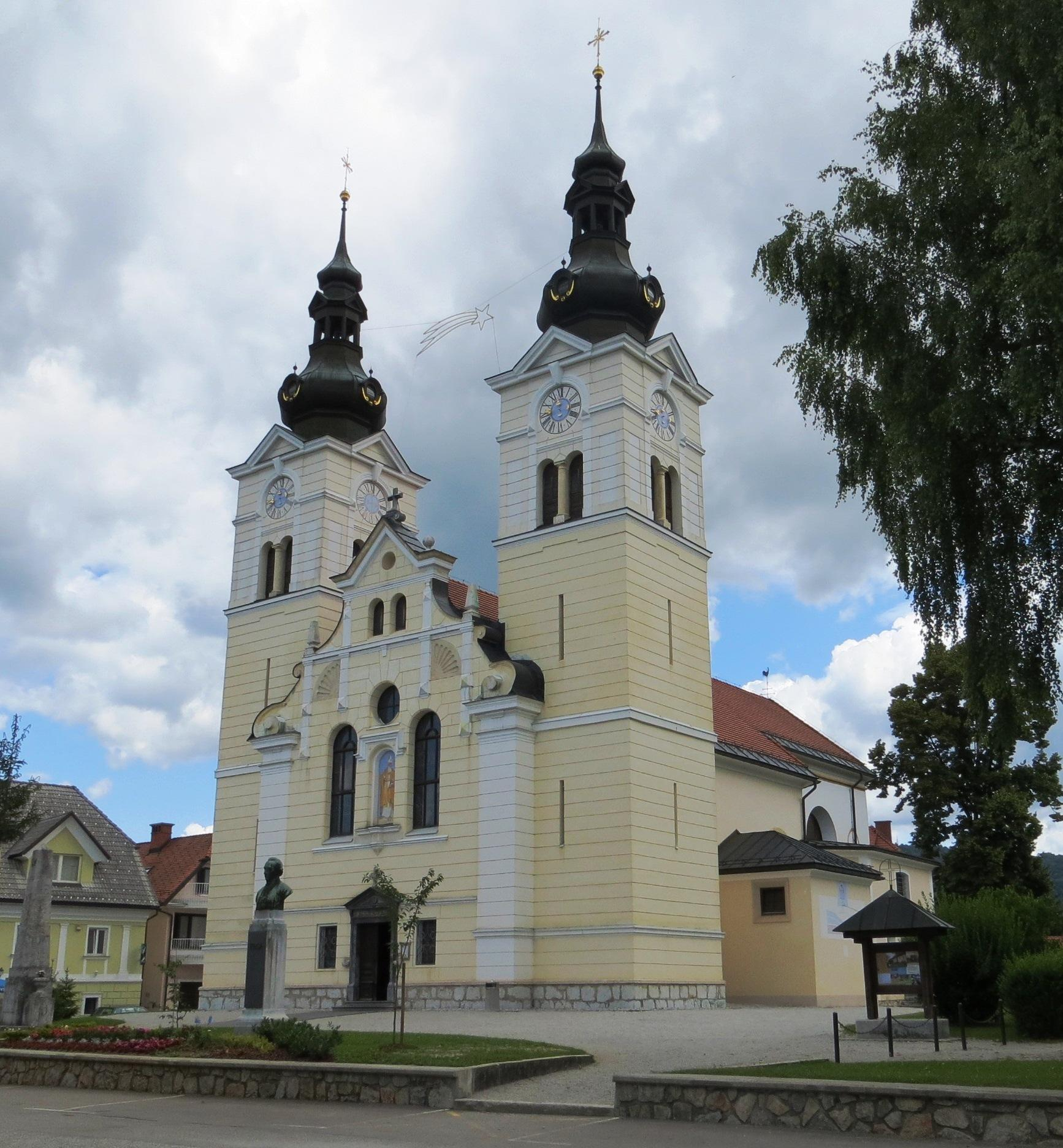 Saint Martin's Church in Moravče, Municipality of Moravče, Slovenia